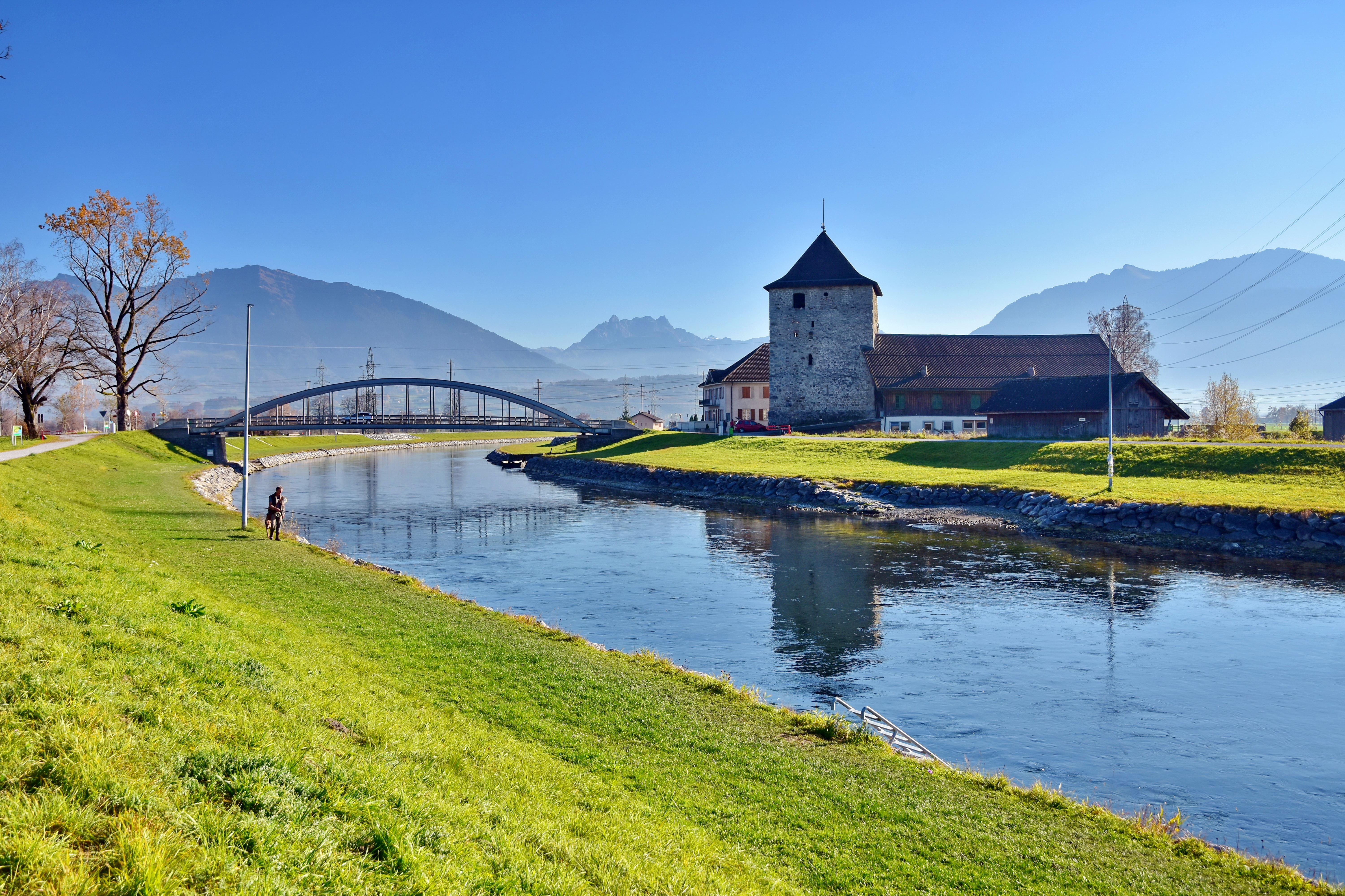 Grynau (Grinau or Schloss Grynau) is a castle tower, situated on the Linth canal in the Swiss municipality of Tuggen in the Canton of Schwyz on the eastern slope of the Buechberg hill. It was built by the House of Rapperswil in the early 13th century AD when the tower was situated on the Tuggenersee lake shore.